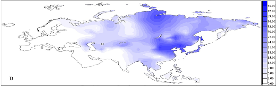 Eurasian frequency distributions of mtDNA haplogroup D.